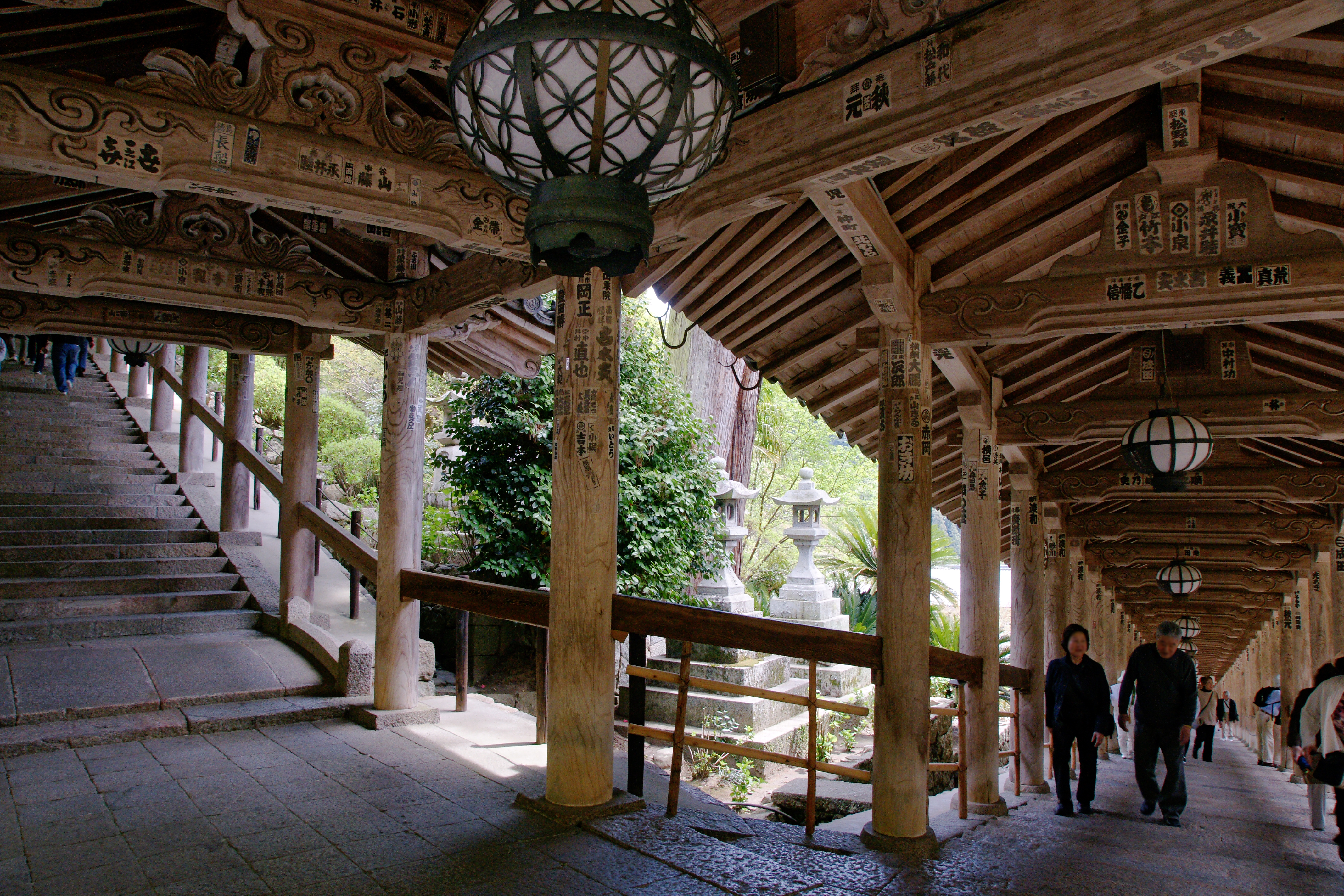 Hasedera Buddhist temple, Sakurai, Nara prefecture, Japan